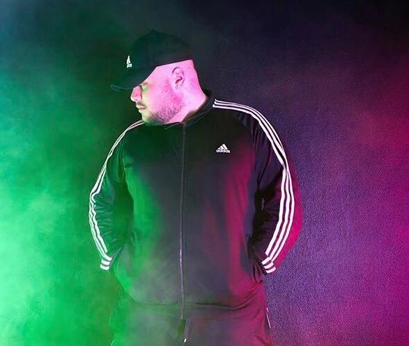 This is a picture of the artist Baba Moe, Moses Ibrahim.